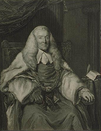 An engraving of William Murray, Earl of Mansfield.